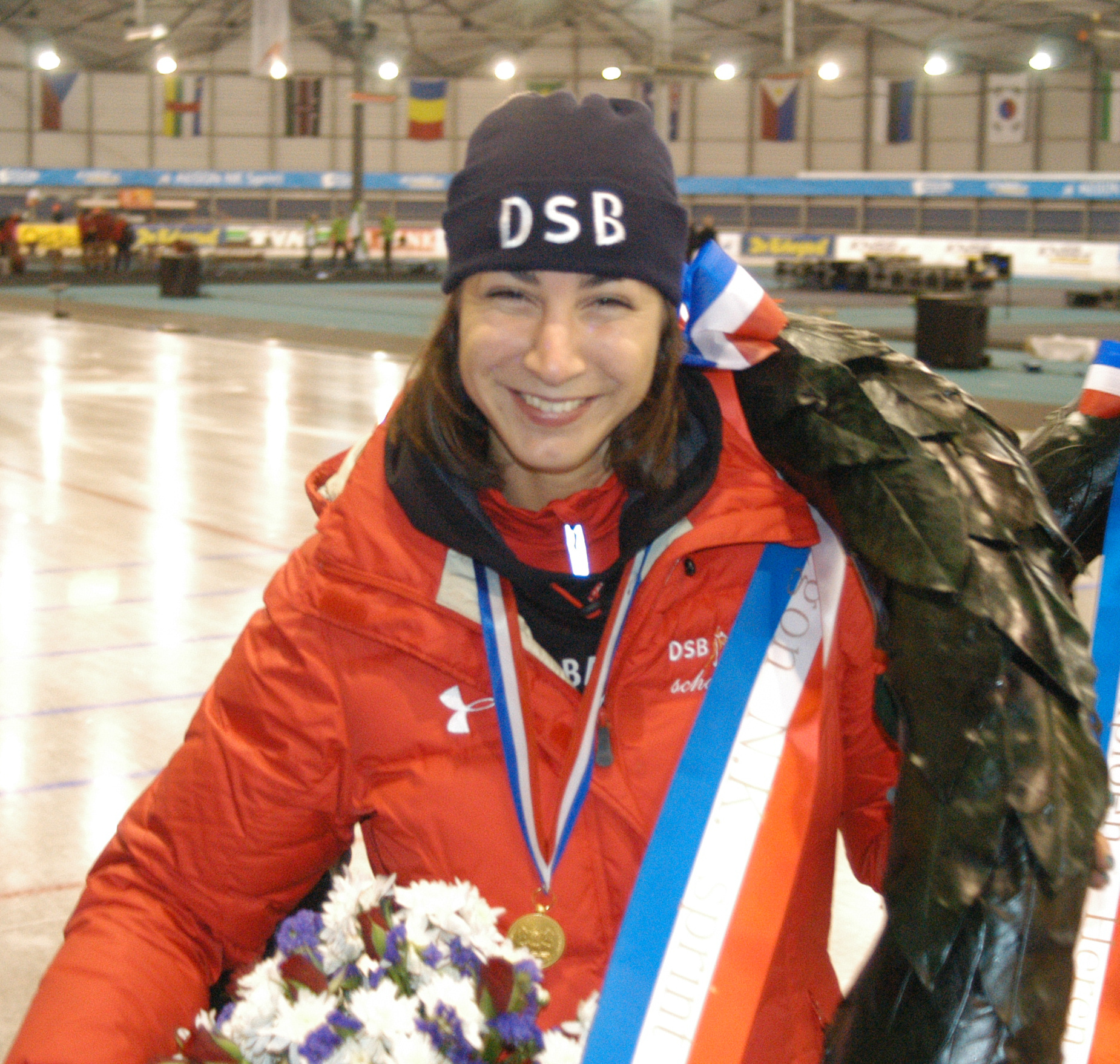 Margot Boer (NED) after winning the Dutch Sprint Speed Skating Championship 2009 at Groningen, the Netherlands.